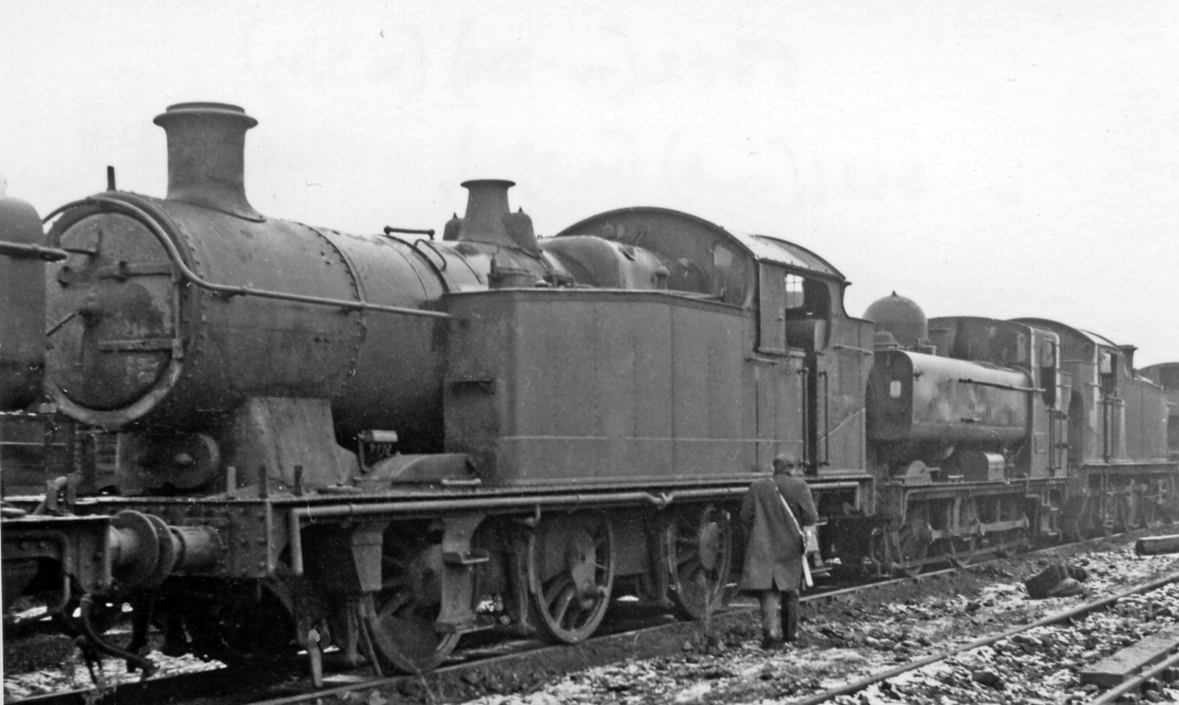 Withdrawn locomotives dumped at Swindon Works. In the foreground is Collett '5600' class 0-6-2T No. 5602 (built 2/24, withdrawn 9/64); behind it is Collett '8750' class 0-6-0PT No. 4626 (built 9/42, withdrawn 3/64).